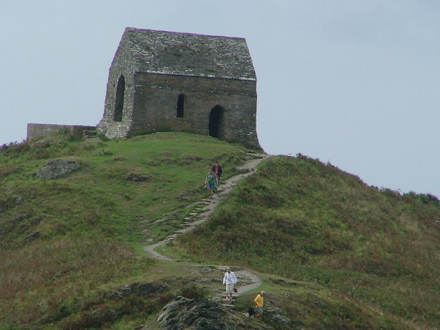 The chapel on Rame Head. An old building which over the centuries has been a hermits chapel, a lookout post and a WW2 gun emplacement camp.